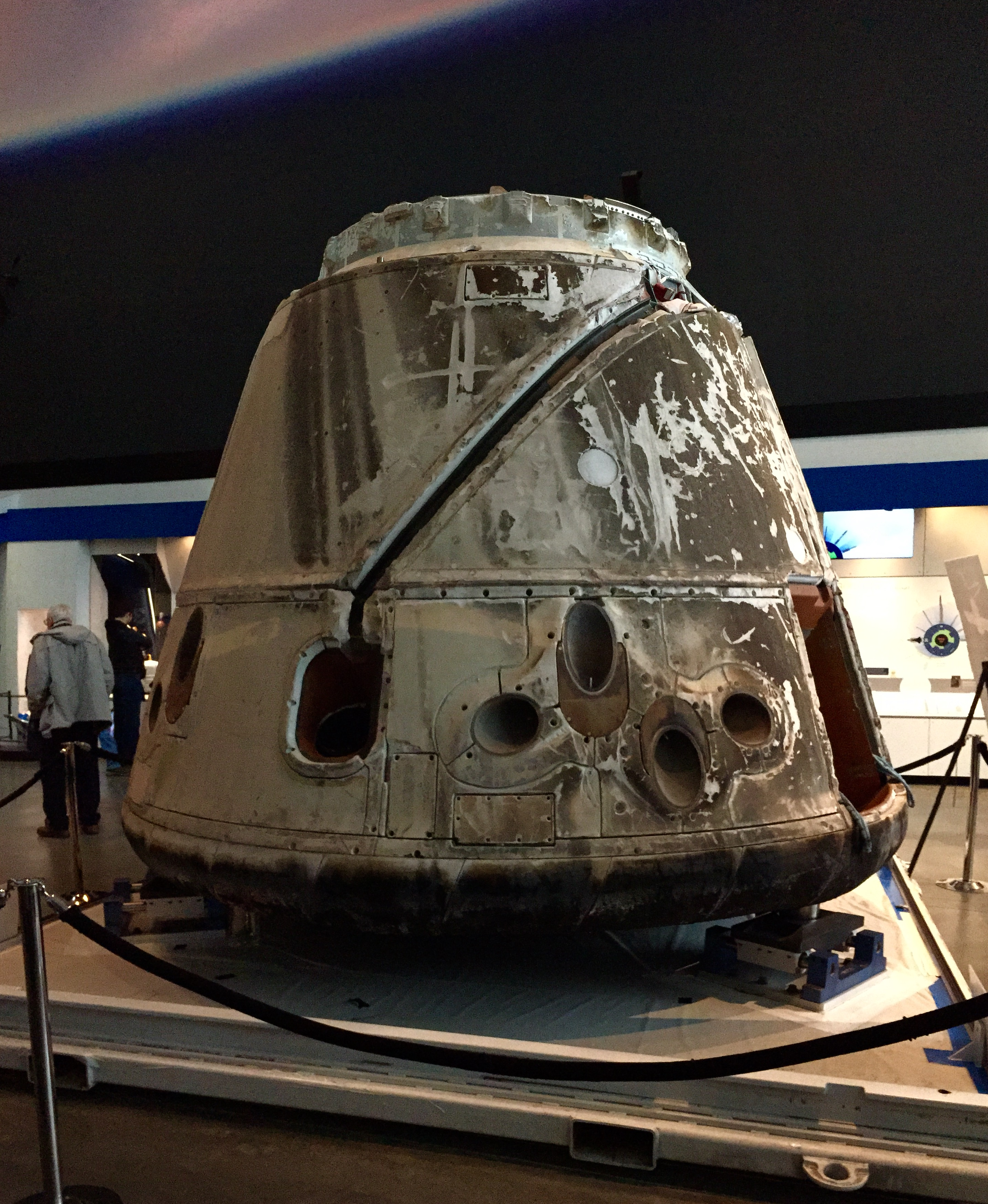 Dragon spacecraft at the Seattle Museum of Flight. This vehicle flew on the COTS 2 (Dragon C2+) mission to the ISS.